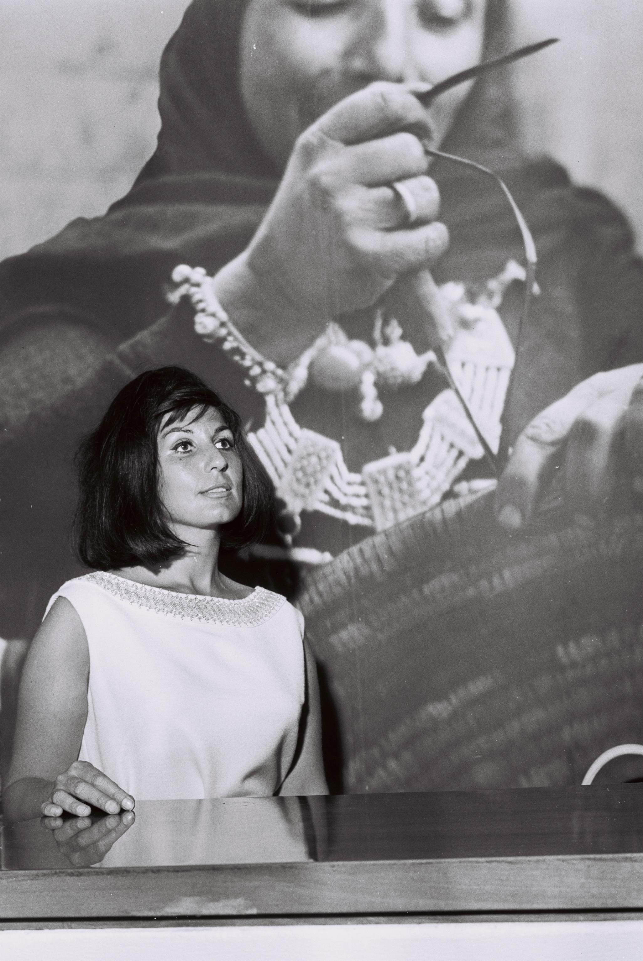 BRITISH TV STAR ALMA COGAN WEARING AN ISRAEL DRESS AT THE MASKIT SHOP IN TEL AVIV.